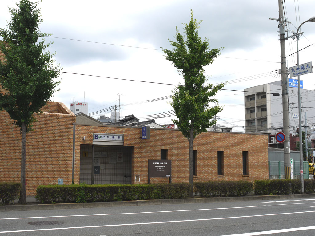 Kyoto Subway Karasuma Line Kujo Station Entrance No1